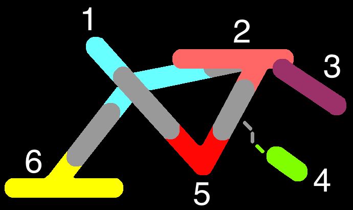 This is a remake of the Y chromosome and mtDNA genetic distance map made by Peter A. Underhill and Toomas Kivisild Use of Y Chromosome and Mitochondrial DNA Population Structure in Tracing Human Migrations Annual Review of Genetics Vol. 41: 539-564 (Volume publication date December 2007)